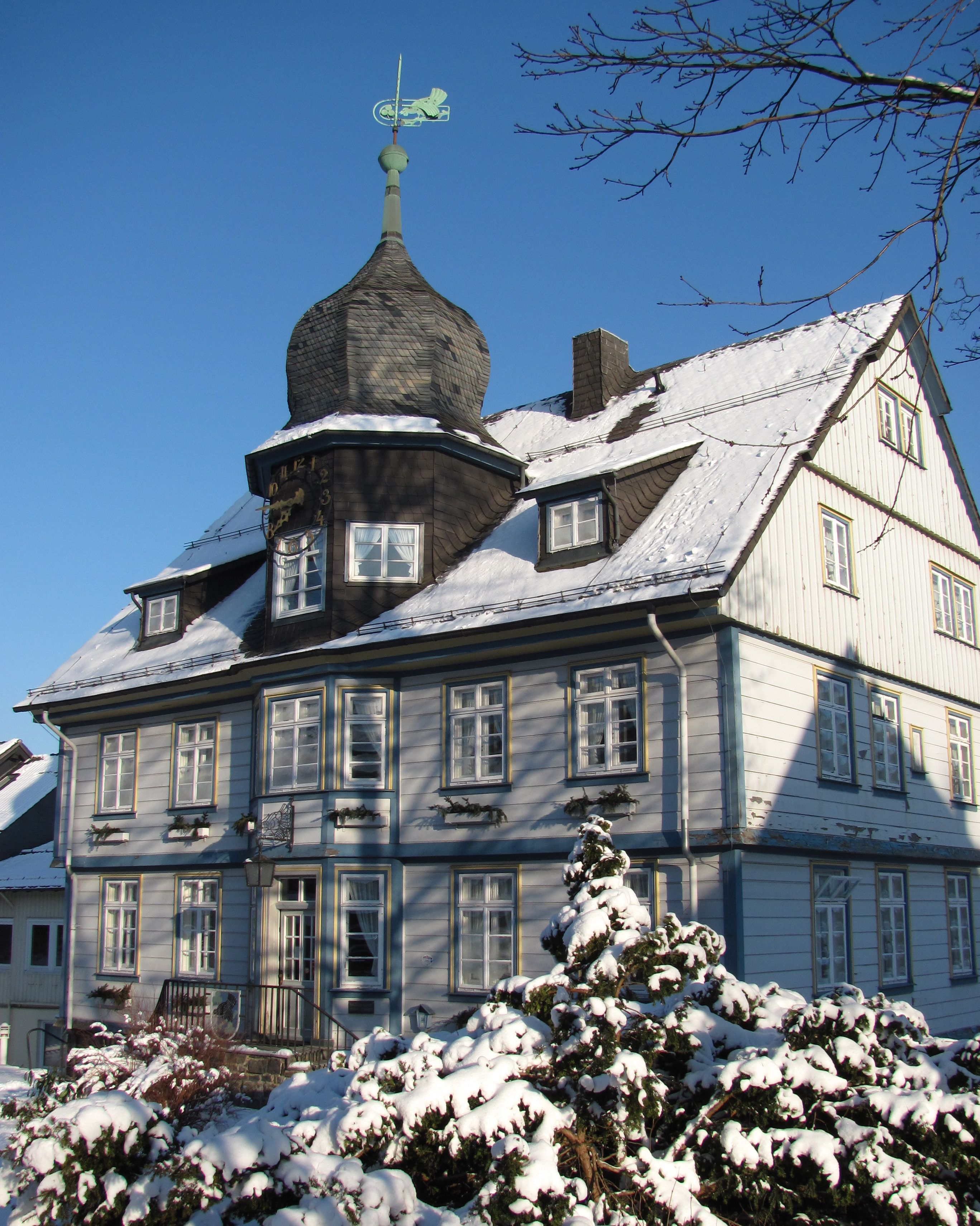 Former Town Hall in Hahnenklee, Harz Mountains, Germany